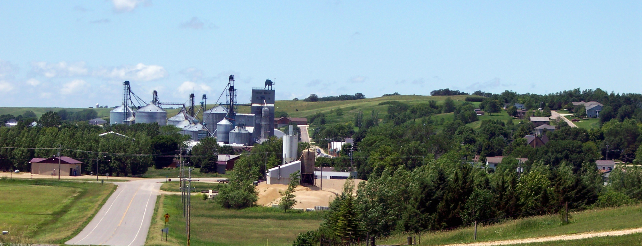 A view of a portion of the city of Chandler, Minnesota. A view of a portion of the city of Chandler, MN.